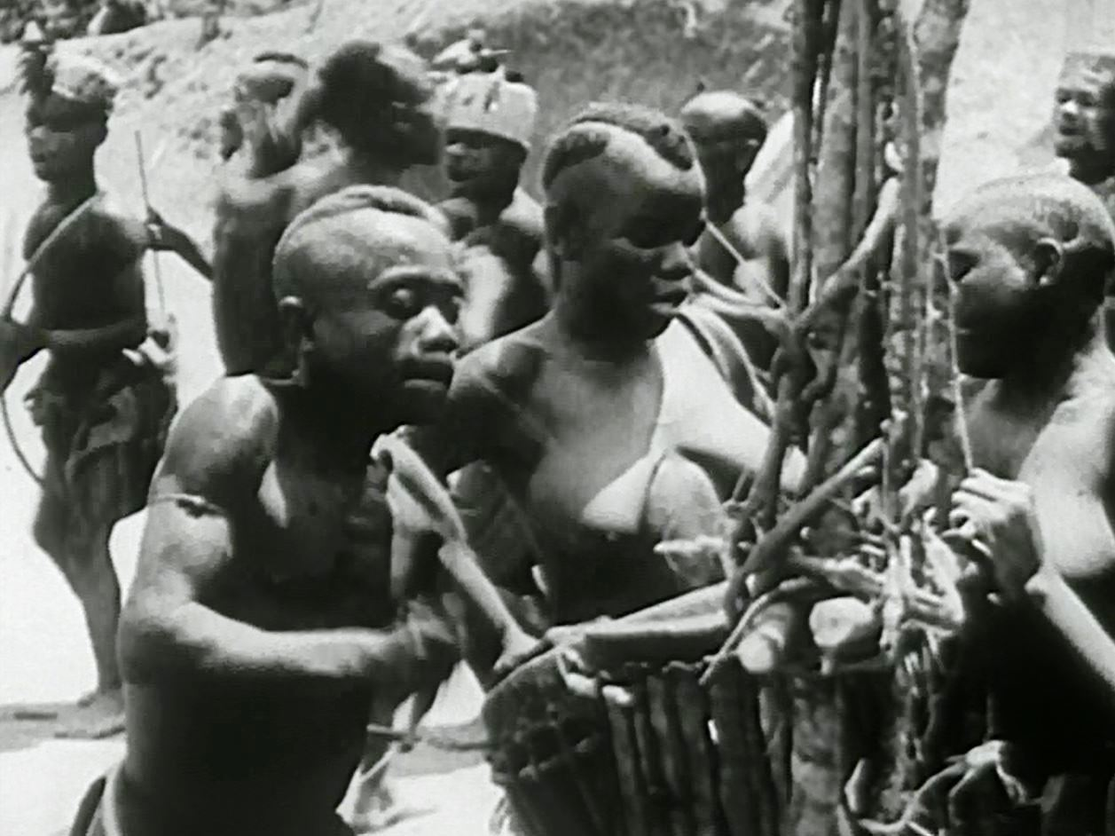 Low resolution screenshot of Pygmy drummers and dancers from the American public domain film Africa Speaks! (1930). The film was taken during a 1928 expedition. The film with some nudity was passed by the national motion picture code as ethnographic films were considered educational.